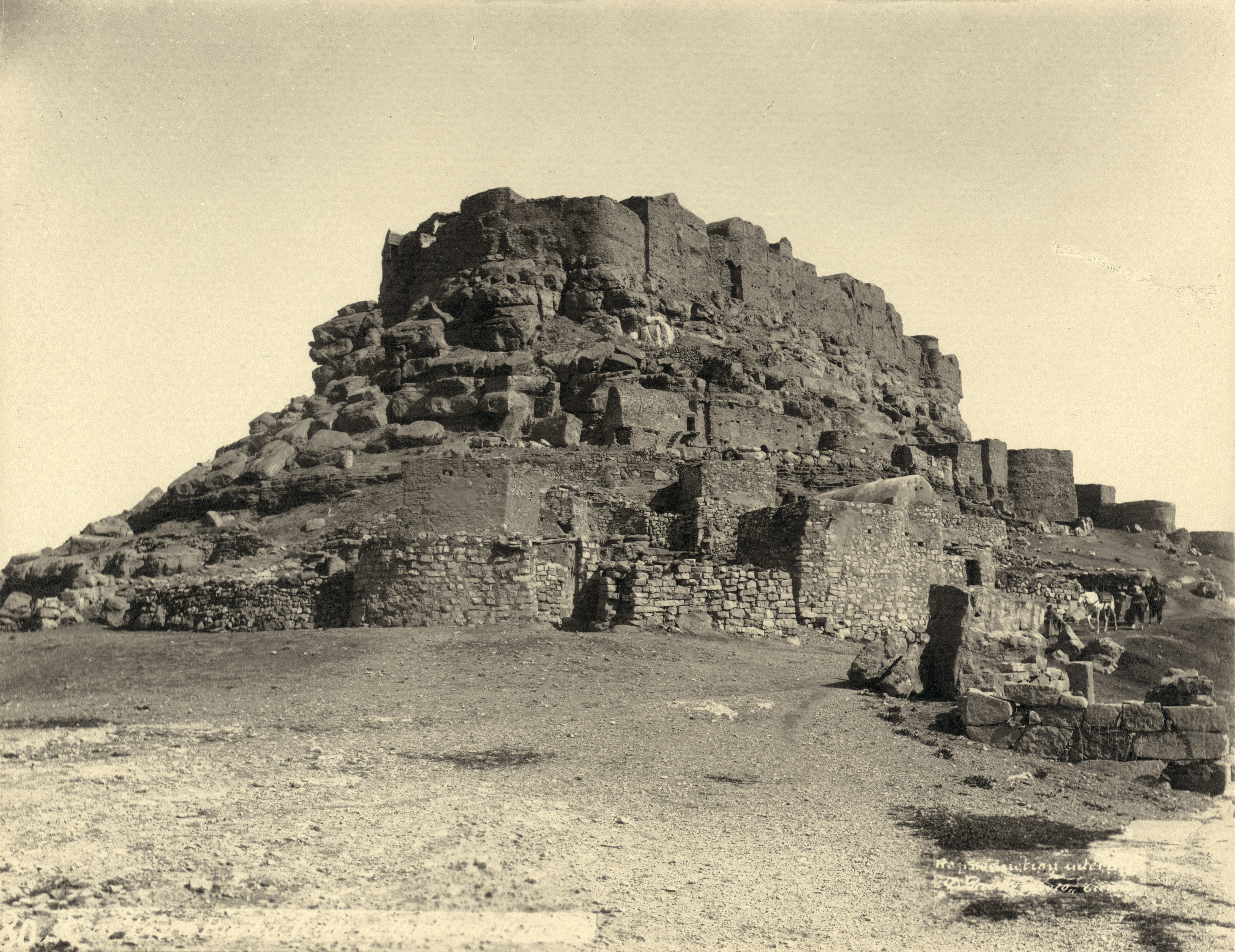 Ksar Beni Barka - Tunisia. (between 1880 and 1900)